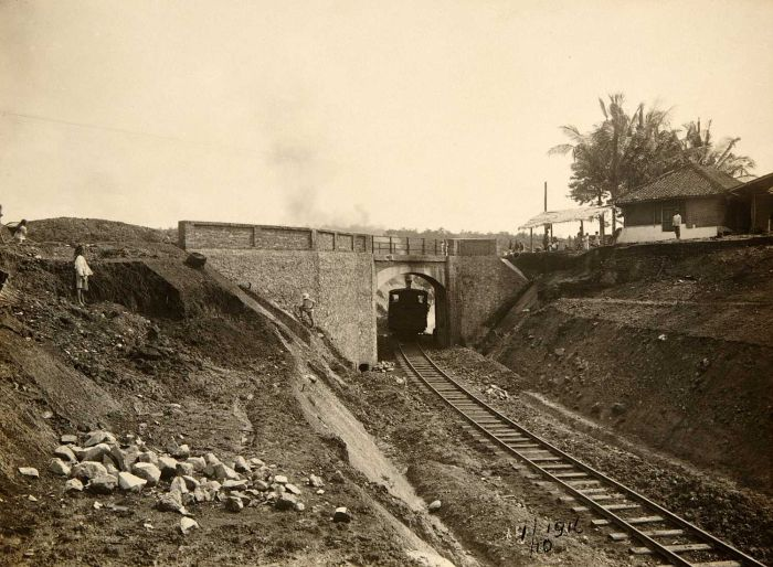 New railway with viaduct above it